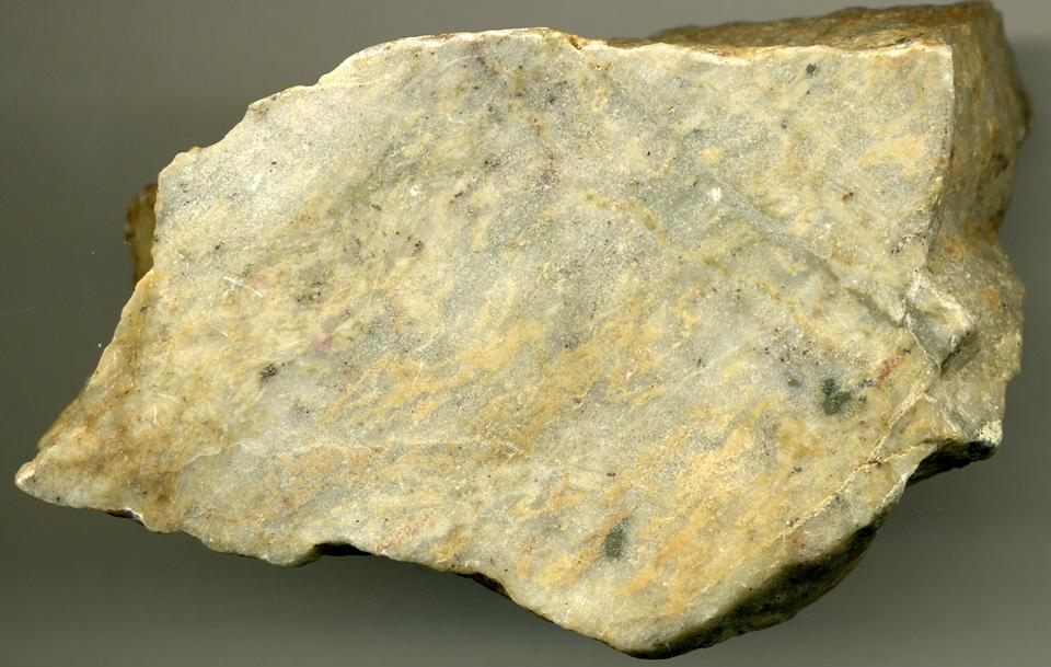 Carbonatite from Chilwa Island in Lake Chilwa, Malawi.This rock is of Cretaceous age and is 74 millimetres across at its widest.